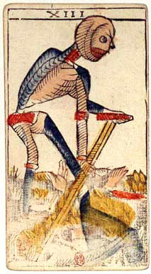 An original card from the tarot deck of Jean Dodal of Lyon, a classic Tarot of Marseilles deck which dates from 1701-1715.